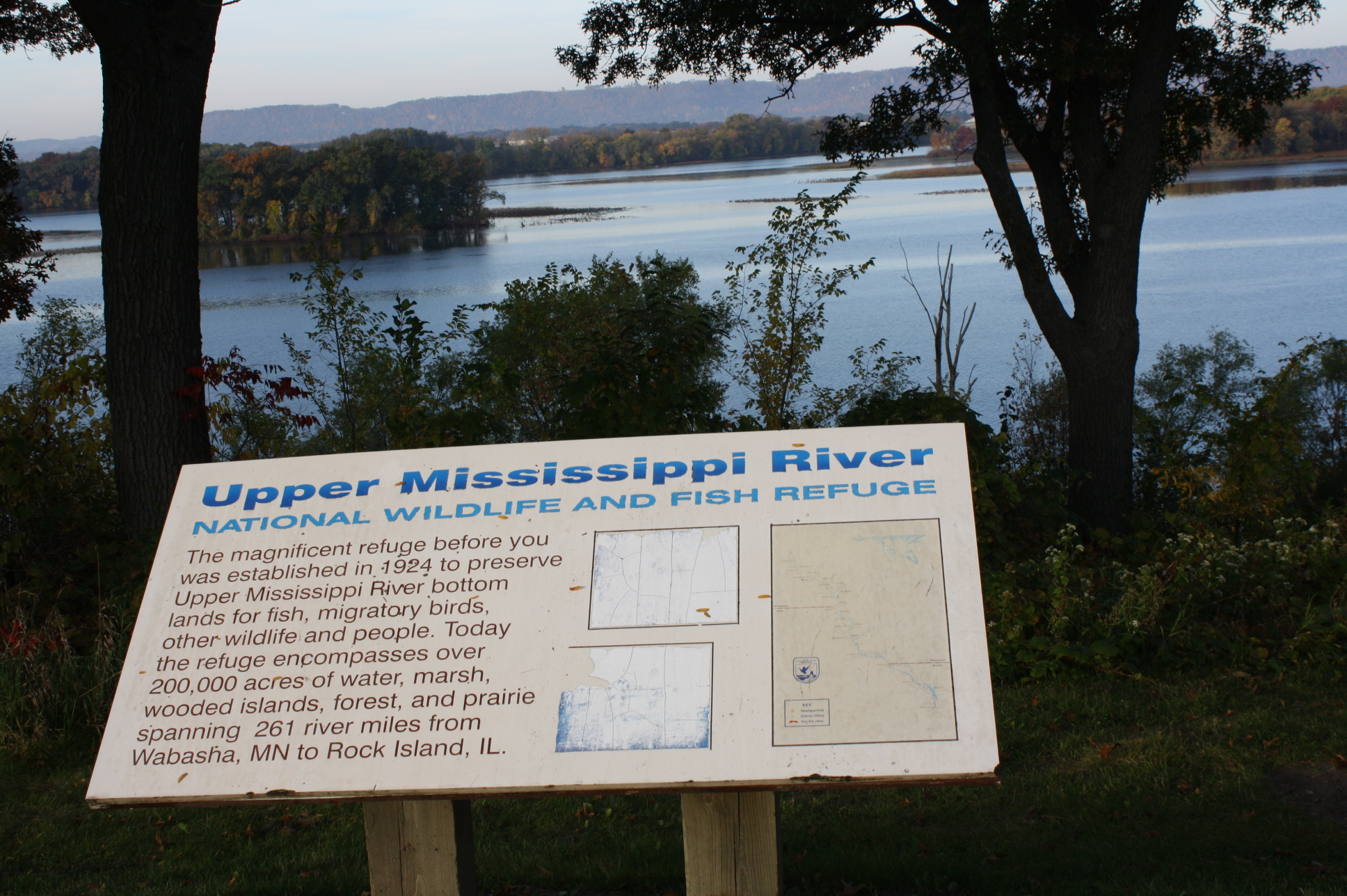 Looking west from an overlook of the Upper Mississippi River National Wildlife and Fish Refuge over the Mississippi River.